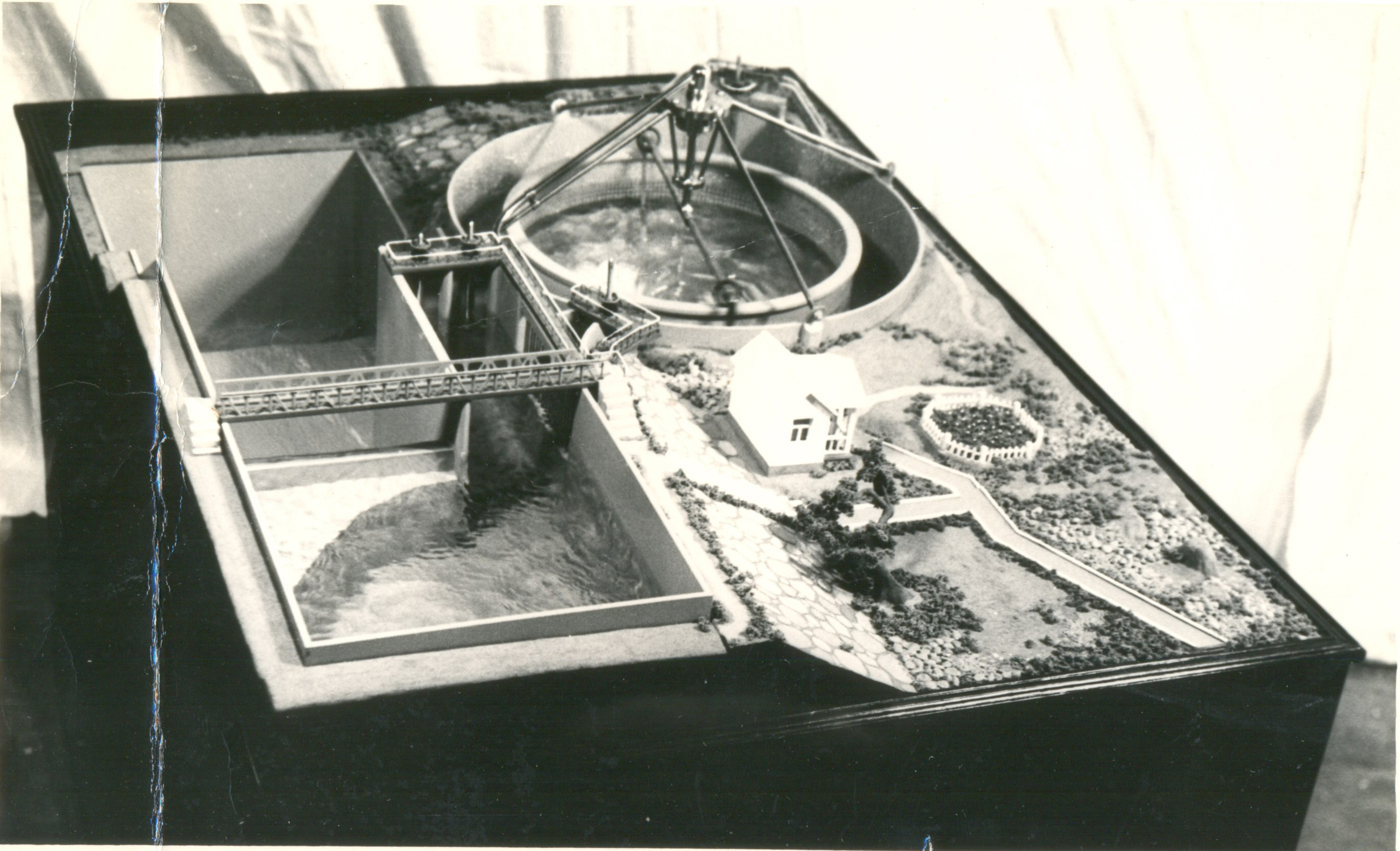 Balıqqoruyucu qurğunun yeni konstruksiyası. 1975